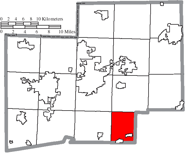 Map of the municipal and township boundaries of Stark County, Ohio, United States, as of the 2000 census, with the location of Sandy Township highlighted. Township borders are shown only in unincorporated areas in order to differentiate incorporated and unincorporated areas more clearly.